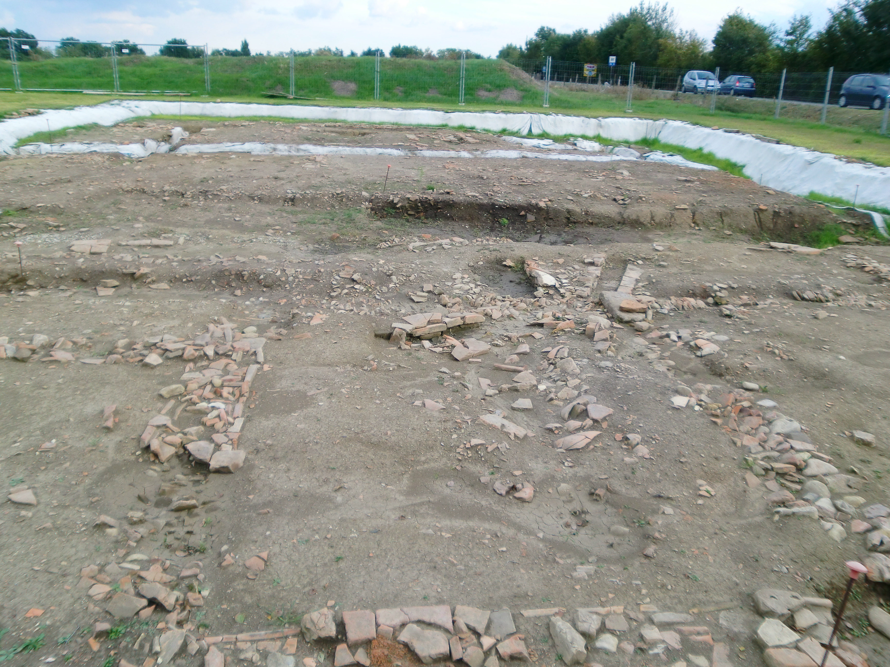 Roman housing and productive structures in Claterna (Ozzano dell'Emilia)